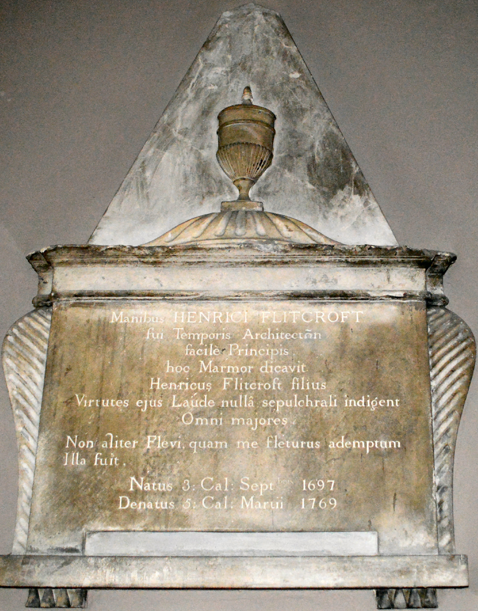 Monument for Henry Flitcroft, d 1769, at St Mary's church, Teddington. Inscription: Manibus HENRICI FLITCROFT fui Temporis Architecton facile Principis hoc Marmor dicavit Henricus Flitcroft filius Virtutes ejus Laude nulla sepulchrali indigent Omni majores Non aliter Flevi, quam me fleturus ademptum Illa fuit. Natus 3: Cal: Sept 1697 Denatus 5: Cal: Martii 1769 "Henry Flitcroft the son dedicated this monument to the guardian spirits of Henry Flitcroft, a well-mannered architect for most of his life. None of the ancestors who have gone before would be lacking in praise for his courage. I wept just as he would have wept at my departure. Born 3rd September 1697. Died 5th March 1769."